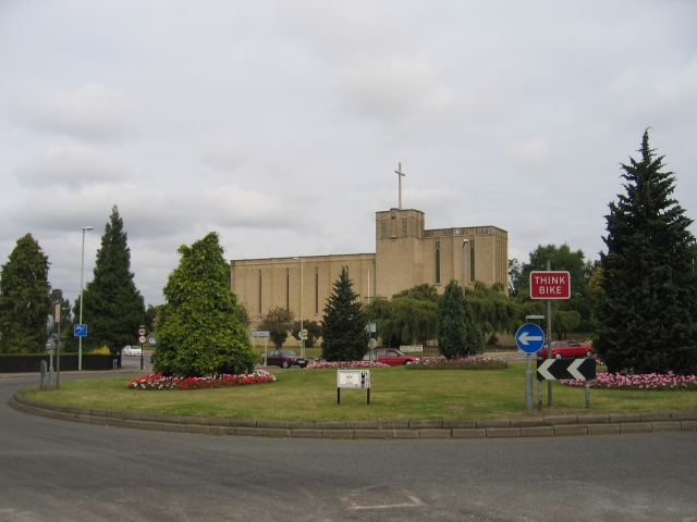 St Barnabas's Church, Stroud Road, Gloucester, seen from the south